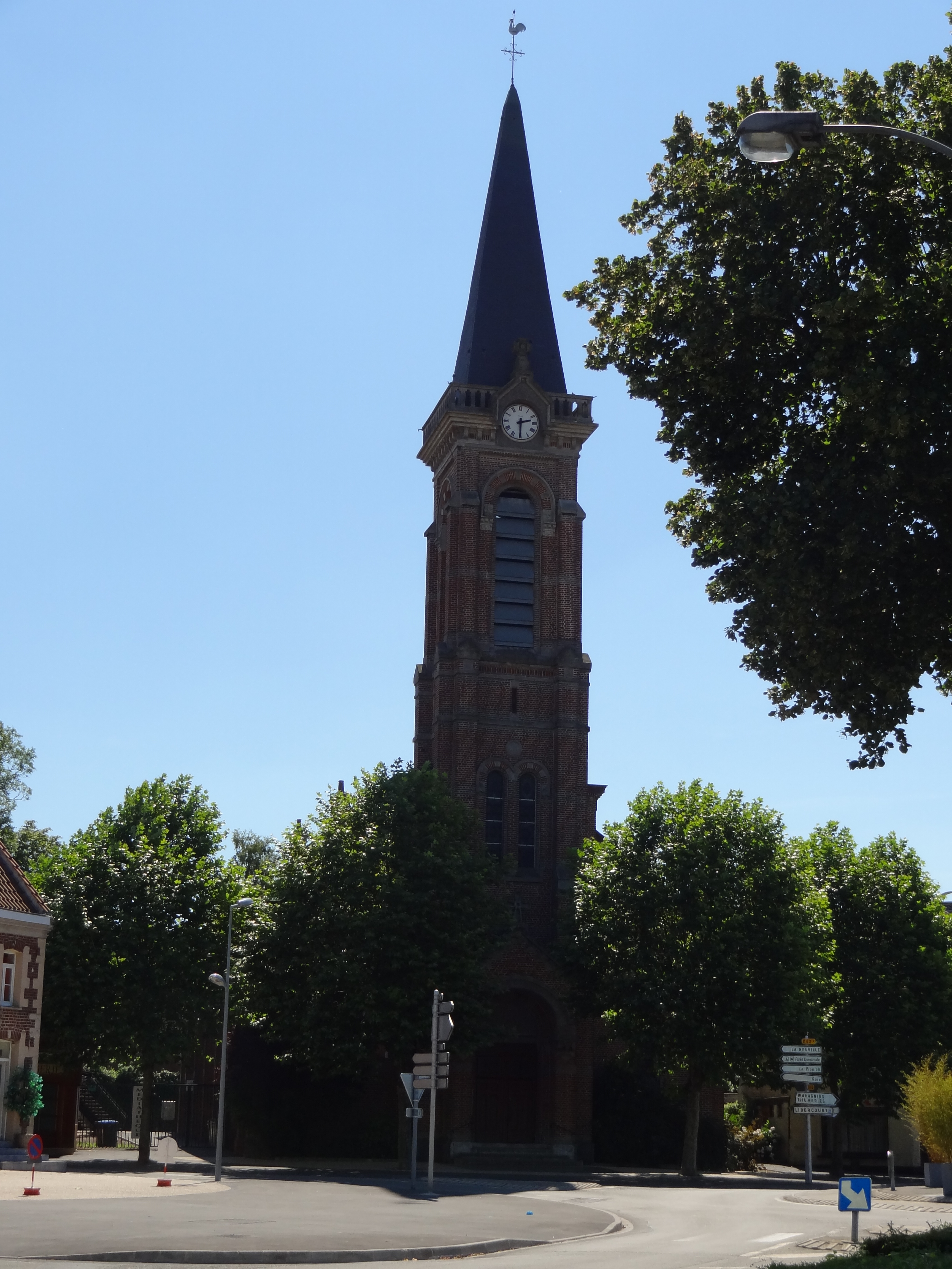 The church of PHALEMPIN (FRANCE, NORD)